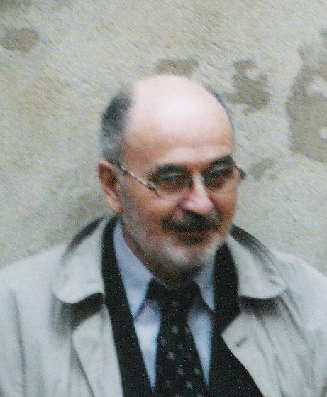 Jean Le Gac (born in 1936, french painter, in 2004)